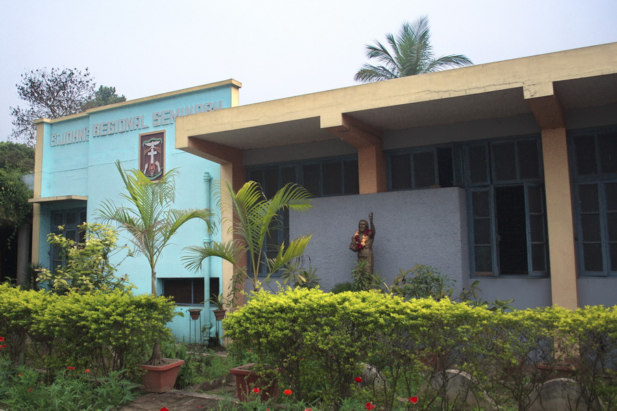 The seminary at Sahibgunj